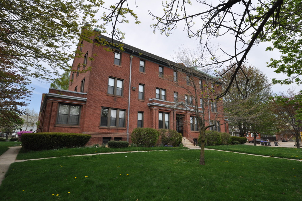 St. Michael's Roman Catholic Church, Convent, Rectory, and School, Providence, Rhode Island. The Rectory.